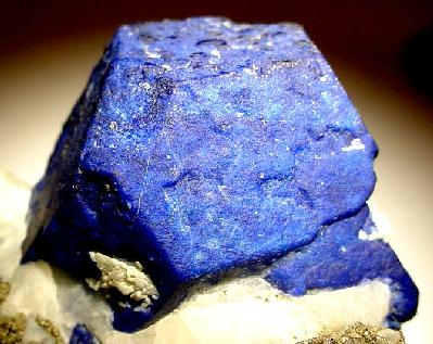 Lazurite Locality: Sar-e-Sang District, Koksha Valley (Kokscha; Kokcha), Badakhshan (Badakshan; Badahsan) Province, Afghanistan (Locality at ) Size: small cabinet, 7 x 5.4 x 6.8 cm Lazurite A fantastic specimen from a classic locality. This large modified crystal has the deep azure-blue color and vitreous luster desired in this species, and, at 4.5 cm, it is far larger than the classic 3 cm crystals referred to in V. 22, P. 216 of the MR.